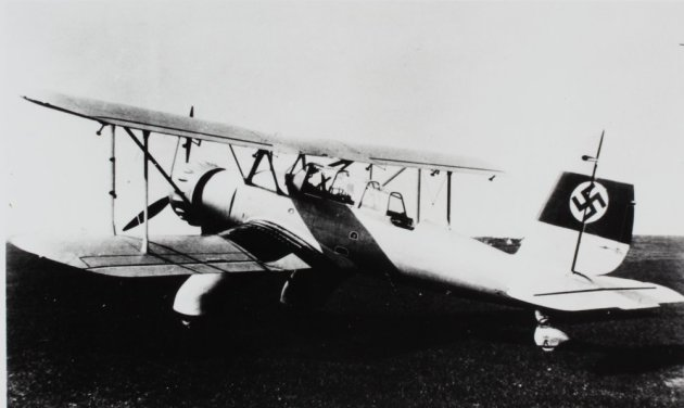 PictionID:38234787 - Catalog:Array - Title:Array - Filename:15_002282.TIF - -------Image from the Charles Daniels Photo Collection.----Album: German Aircraft.-----------PLEASE TAG these images with any information you know about them so that we can permanently store this data with the original image file in our Digital Asset Management System.-----------------SOURCE INSTITUTION: San Diego Air and Space Museum Archive